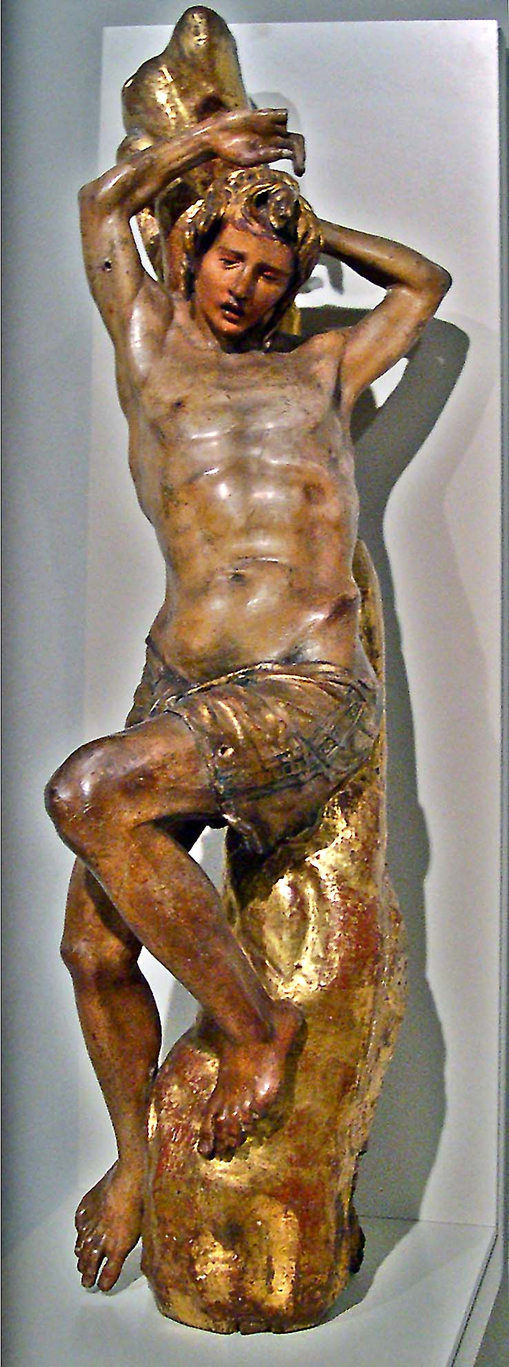 Martyrdom of St. Sebastian, sculpture in polychromed wood, part from the altarpiece of St. Benedict monastery, in Valladolid (Spain), actually exposed in the Museo Nacional de Escultura de Valladolid